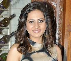 Sargun Mehta on her birthday party